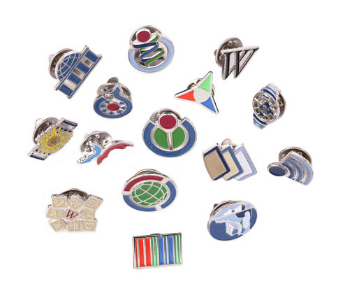 Wikimedia project lapel pins from Wikimedia shop